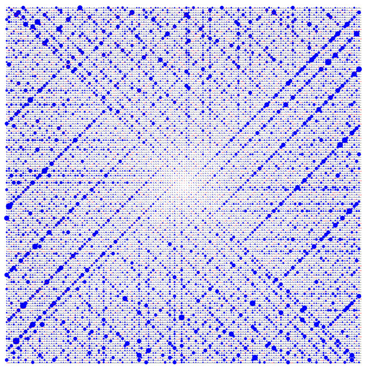 Ulam spiral to 150 iterations